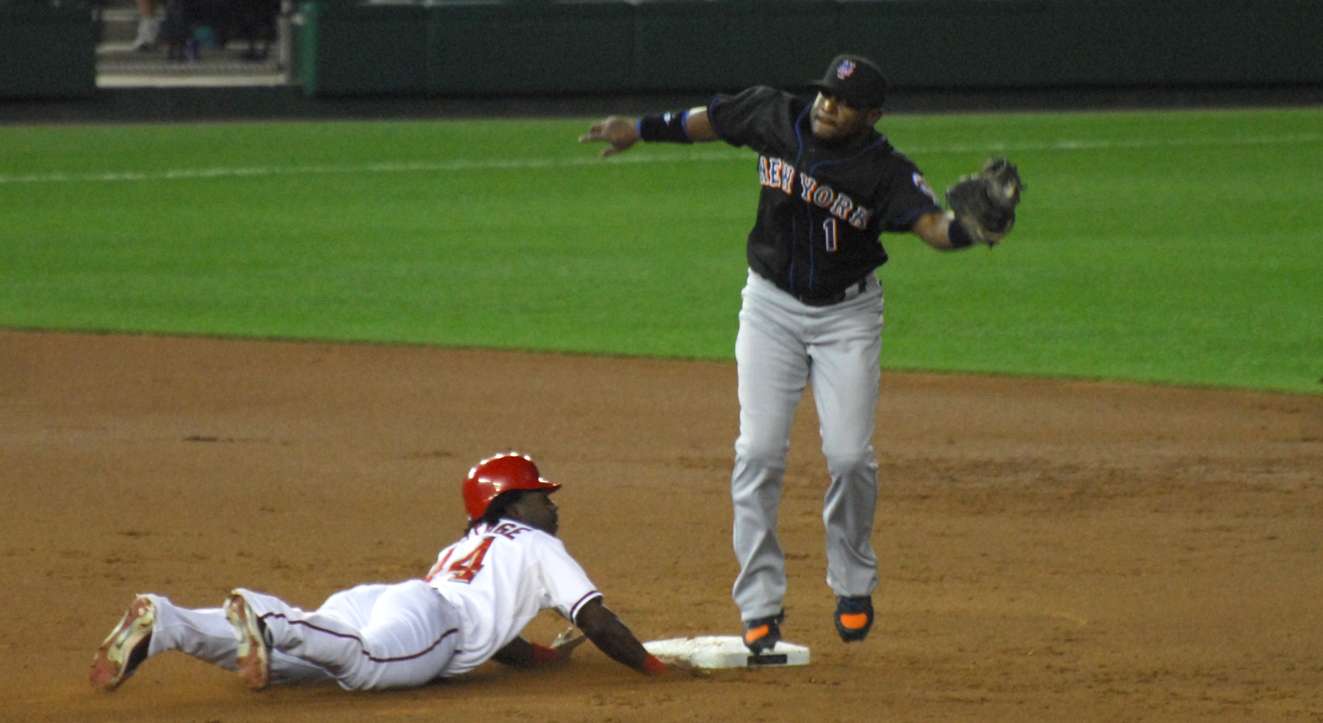 Lastings Milledge steals second base and the ball goes to center field